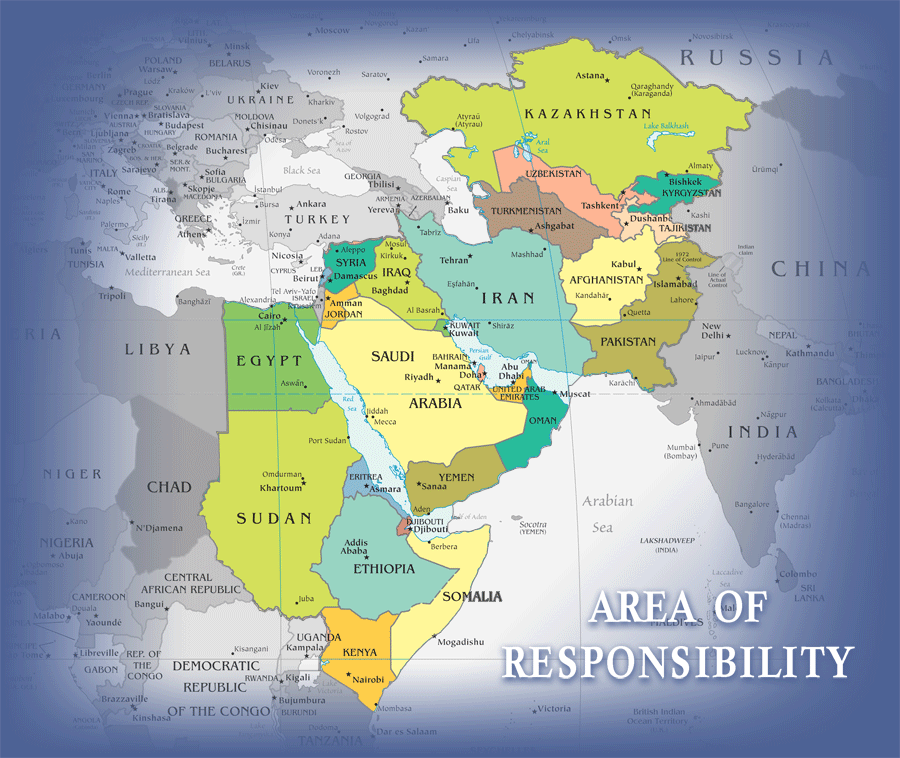 Area of Responsibility of United States Central Command (USCENTCOM), a Unified Combatant Command of the United States